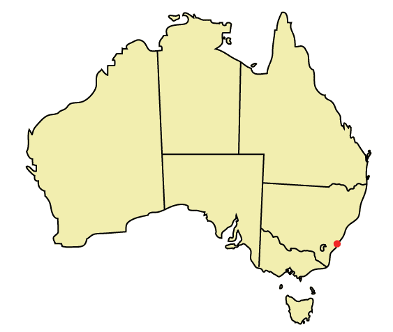 Map of Australia locating Wollongong.